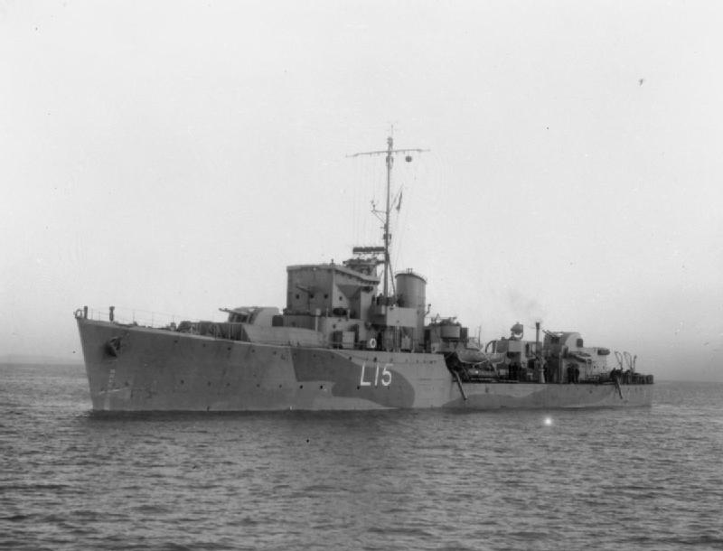 HMS Eggesford Stationary.